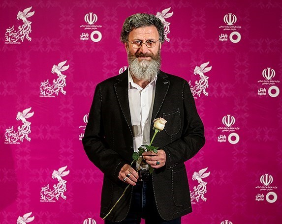 Bahram Azimi